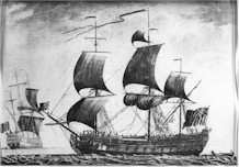 HMS Culloden Obtained from and believed to be out of copyright.